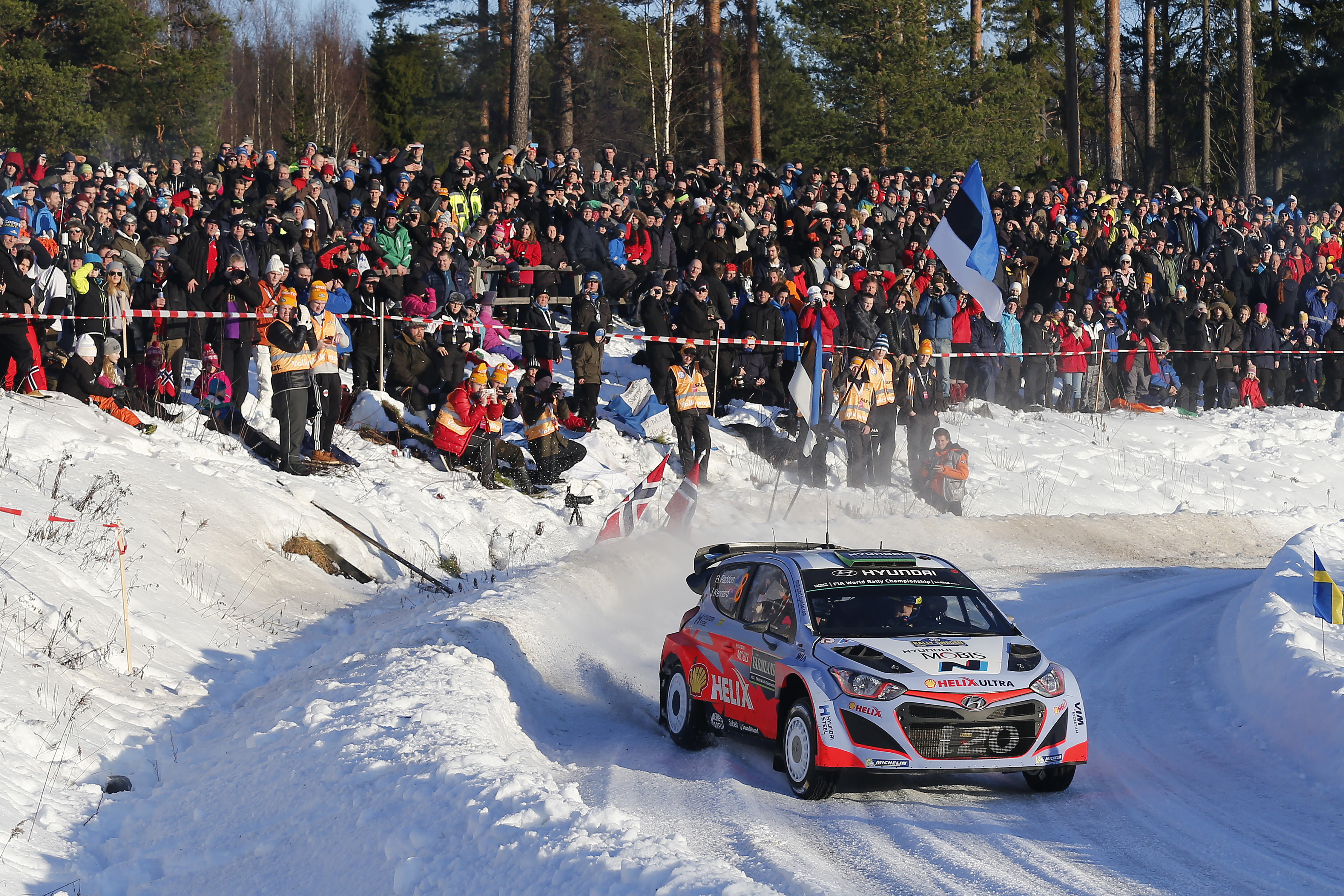 Hayden Paddon and co-driver John Kennard in their Hyundai i20 WRC at the 2015 Rally Sweden.